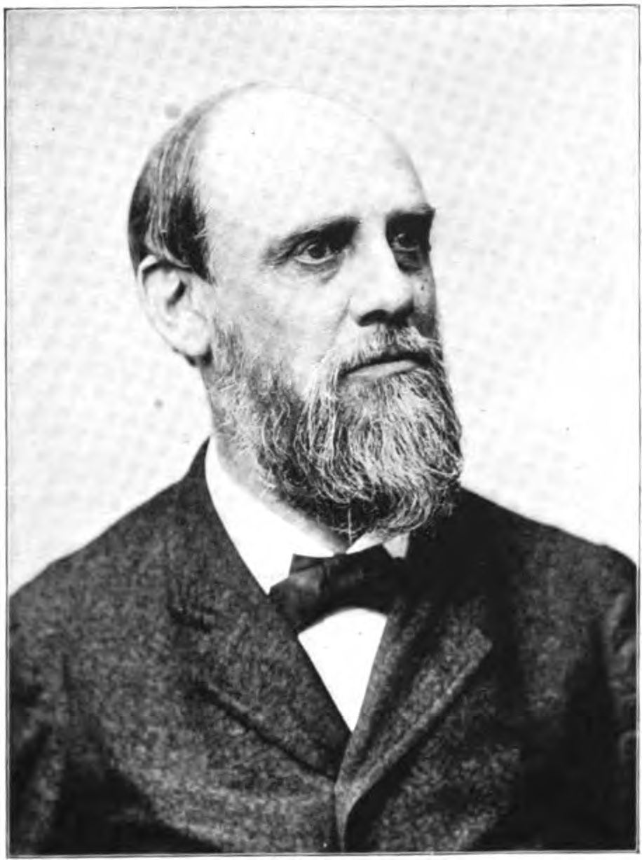 George Hoadly from a painting by E. F. Andrews in the Capitol in Columbus.